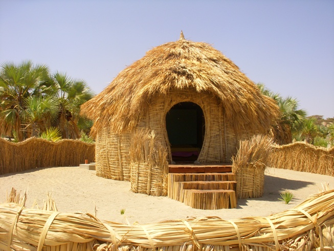 Beautiful Guest accommodation at Eliye Springs on Lake Turkana